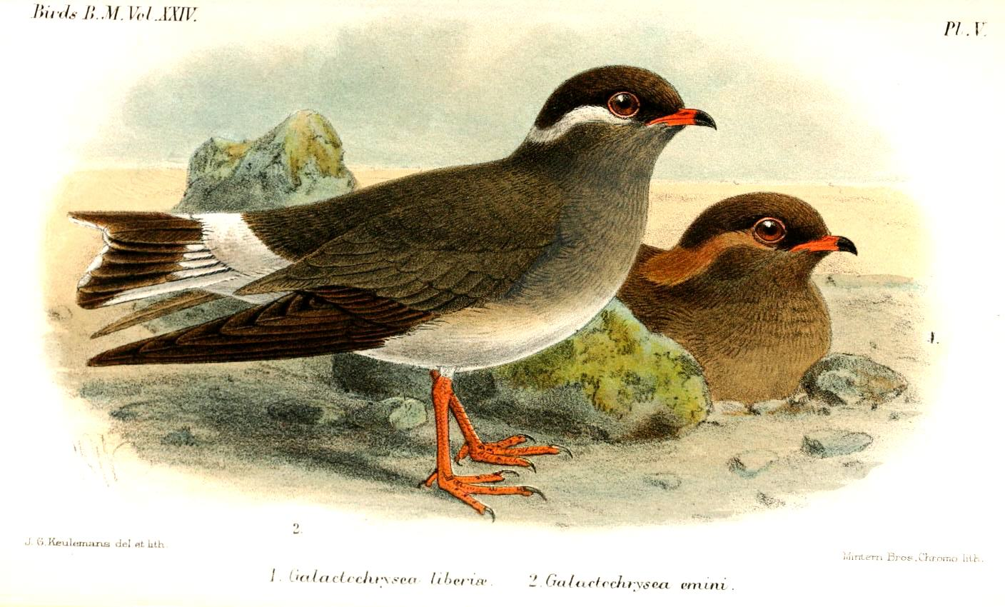 Galactochrysea liberiae and G. emini = Glareola nuchalis Rock Pratincole